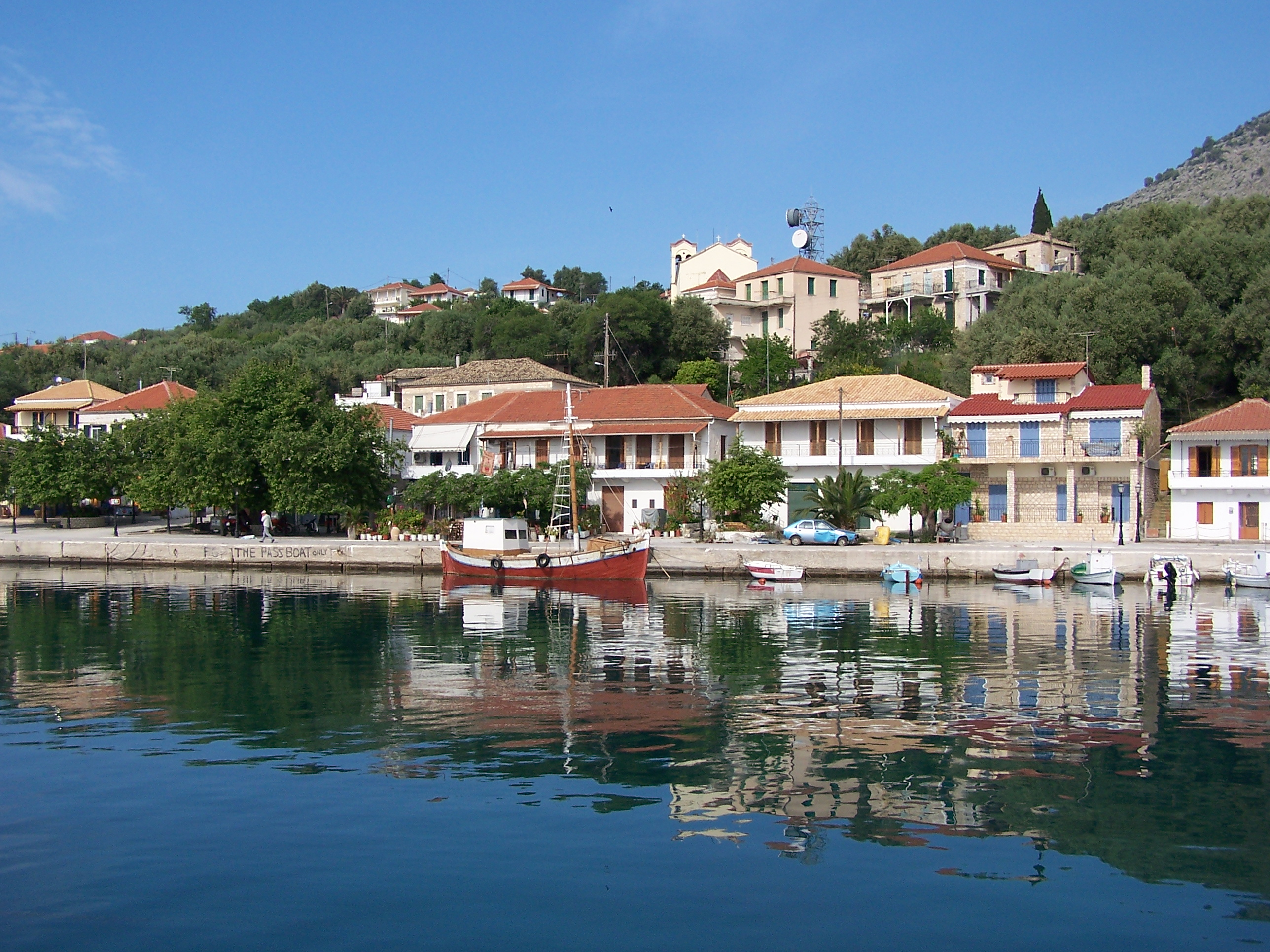 Kalamos Village on Kalamos Island, Lefkade, Greece